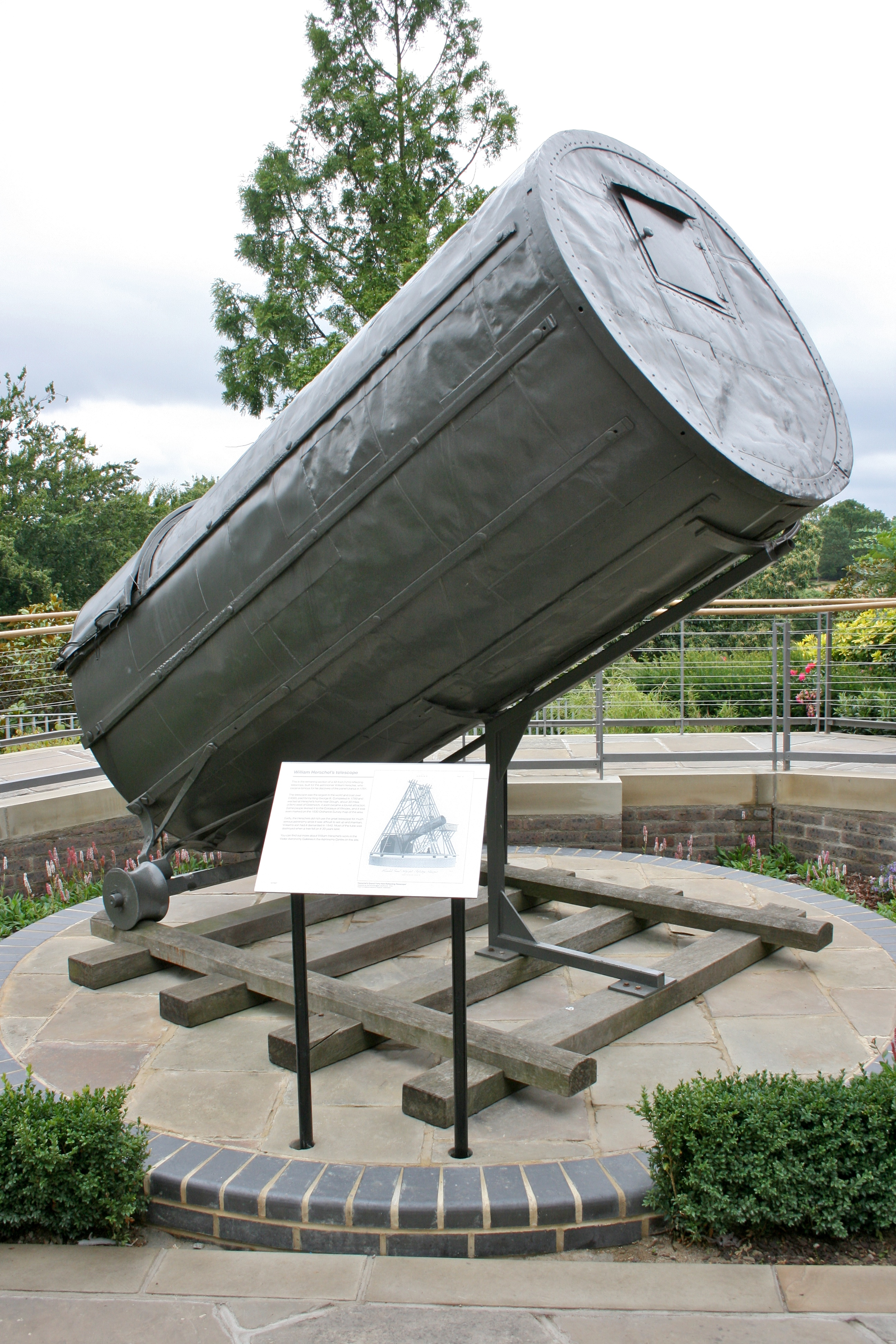 The remaining section of William Herschel's 40-foot telescope